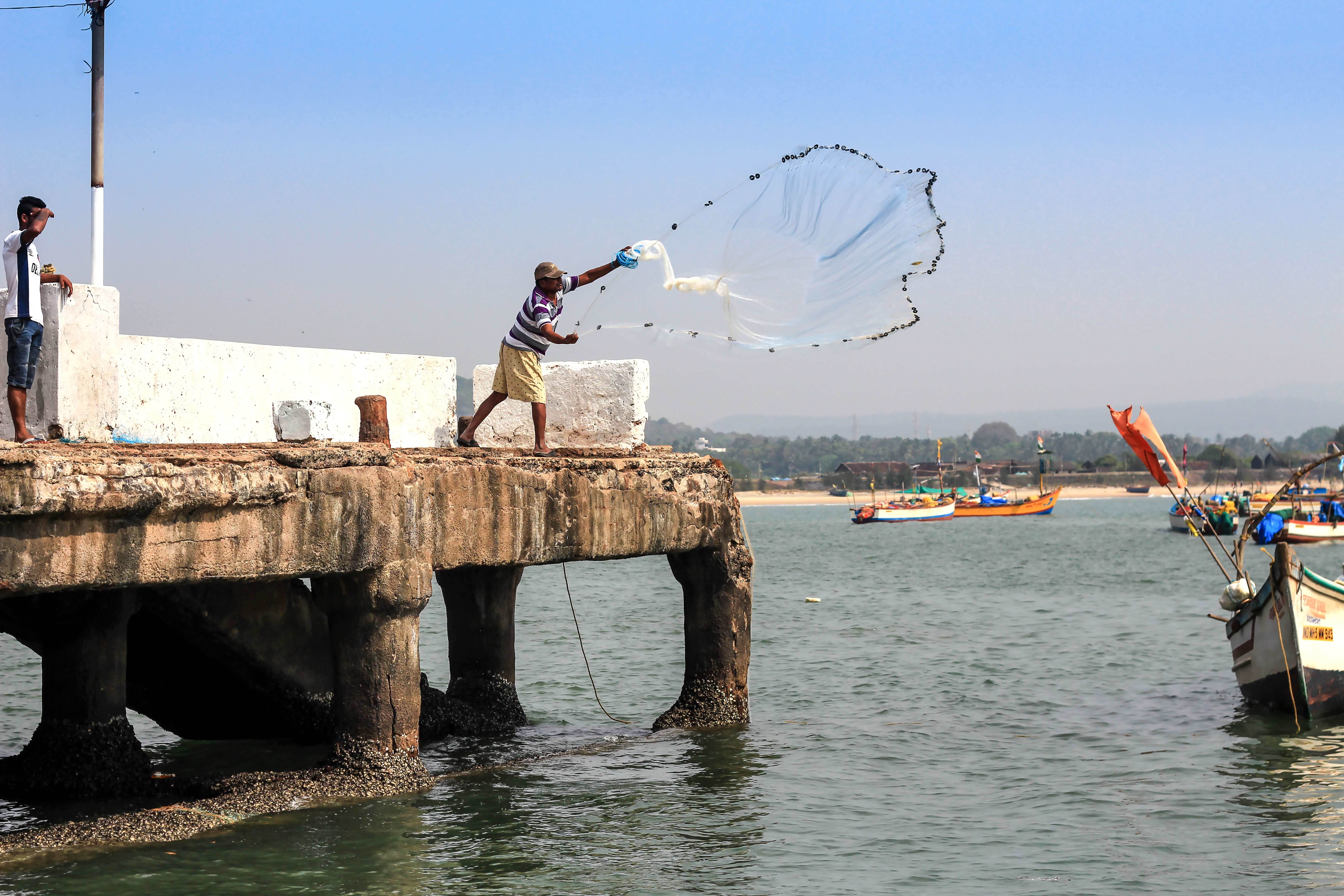 The fisherman active in Vengurla, Maharshtra, India